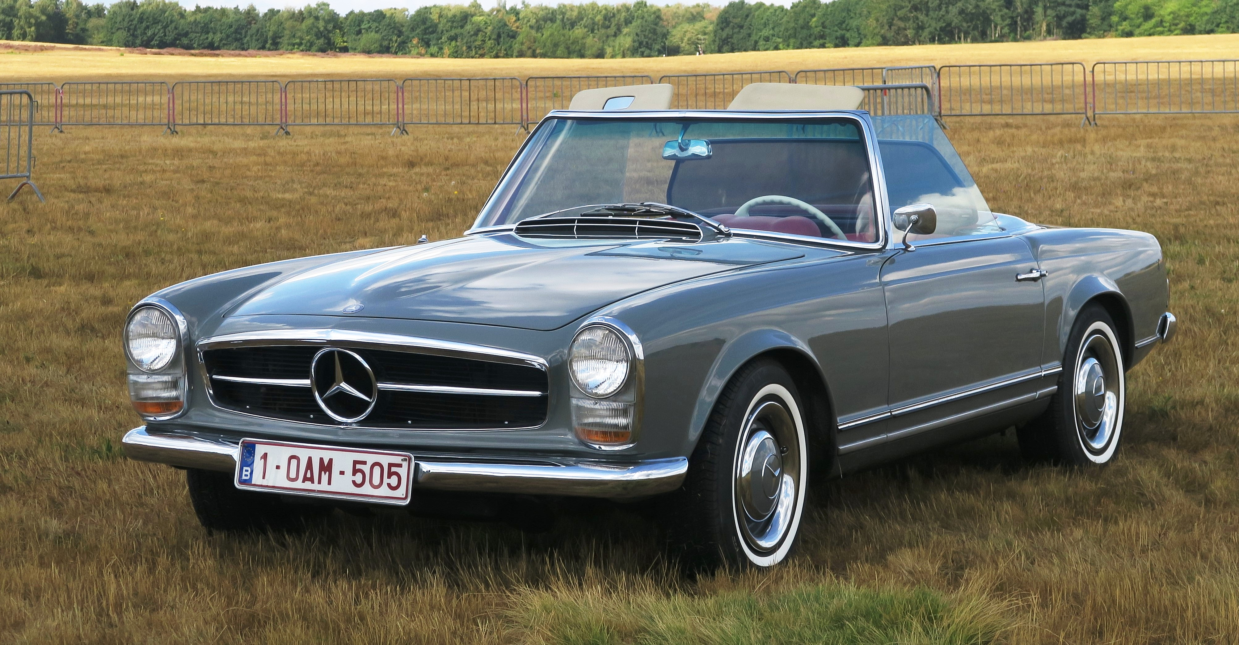 Mercedes-Benz W113 250 SL